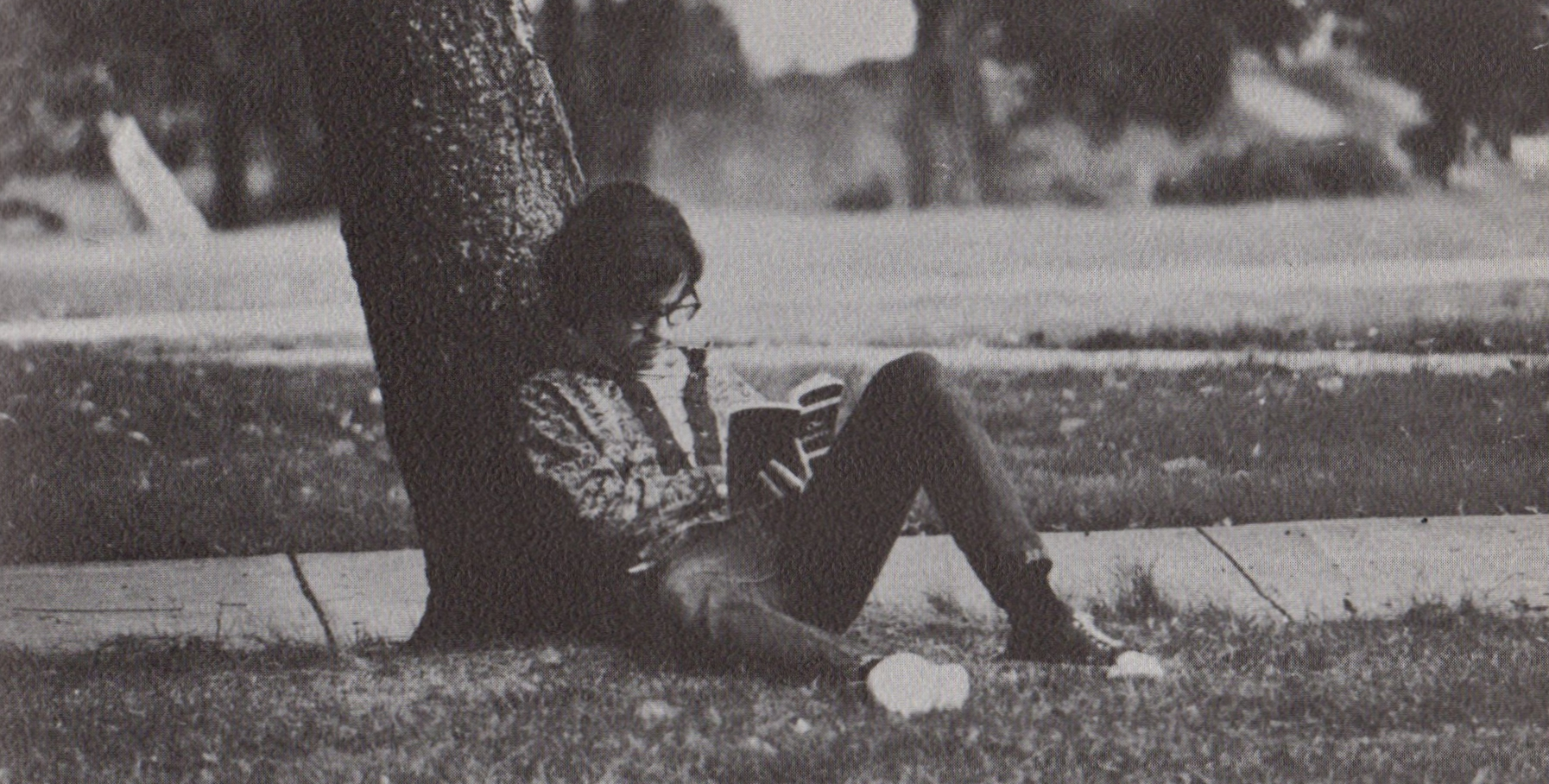 Photograph of Shimer College student reading John Stuart Mill's On Liberty under a tree on the school's original campus in Mount Carroll. Published in the school's 1973-1974 catalog, which does not contain a copyright notice. The school also did not register or assert copyright thereafter.